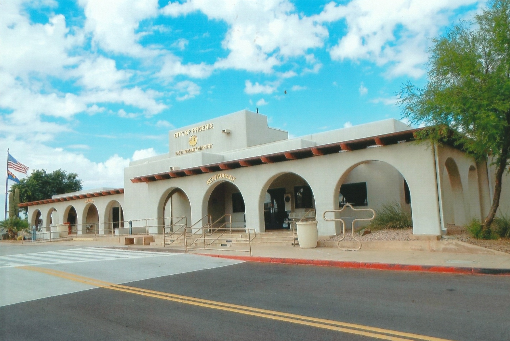 The main terminal of the Phoenix Deer Valley Airport which was built in 1975.